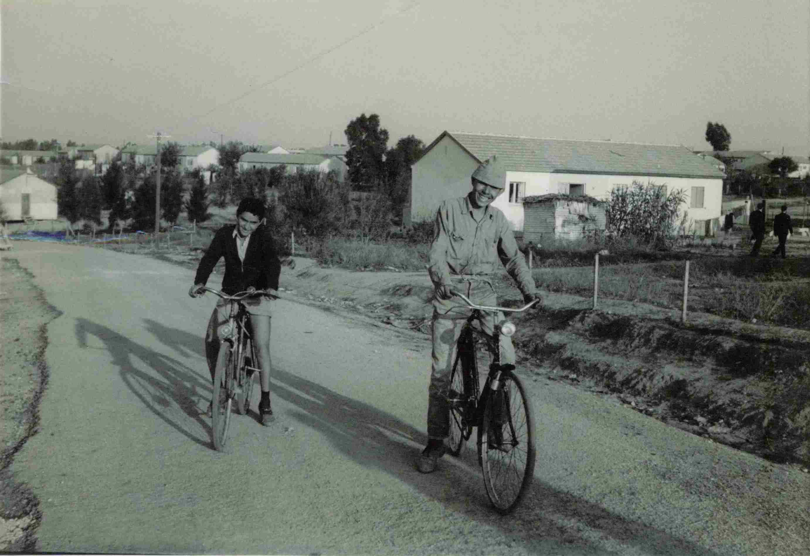 Riding bikes in Netivot